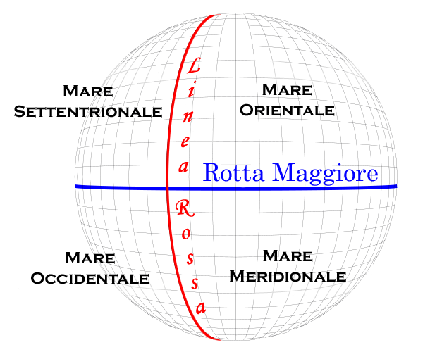 Diagram of the world of One Piece (a manga), based on the information given in chapter 22.